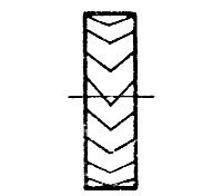 Sprocket Wheel